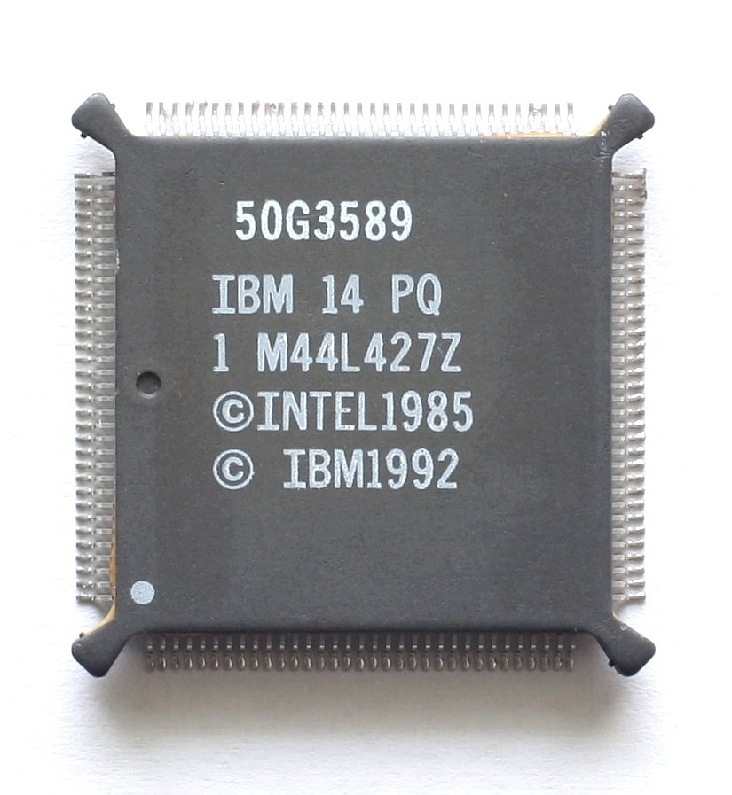 IBM 80486DLC2-66. CPU with 386er pinout, some 486er instructions and 16 KB cache. This CPU is not 100% Intel compatible.